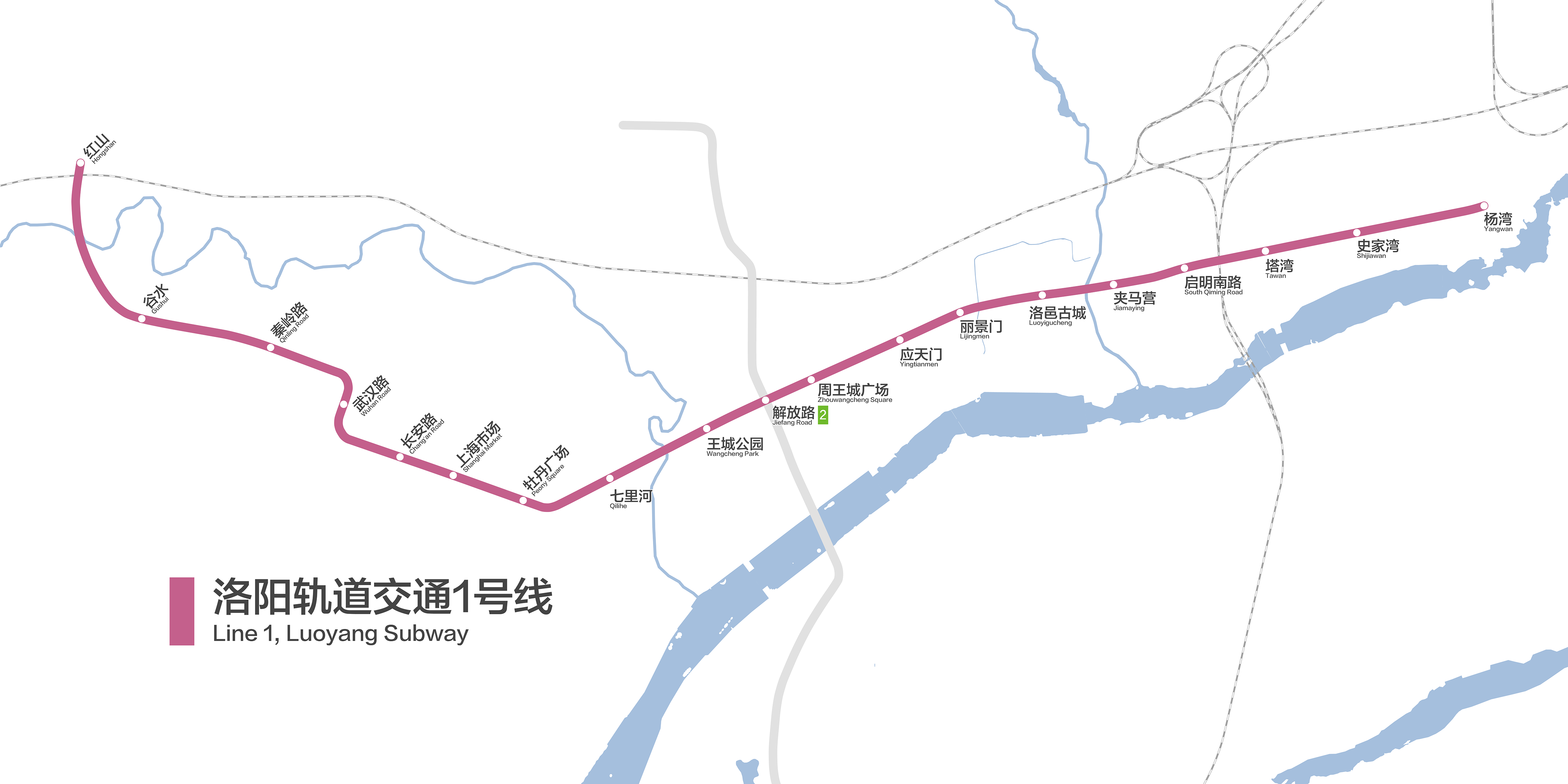 Route Map of Luoyang Metro Line 1